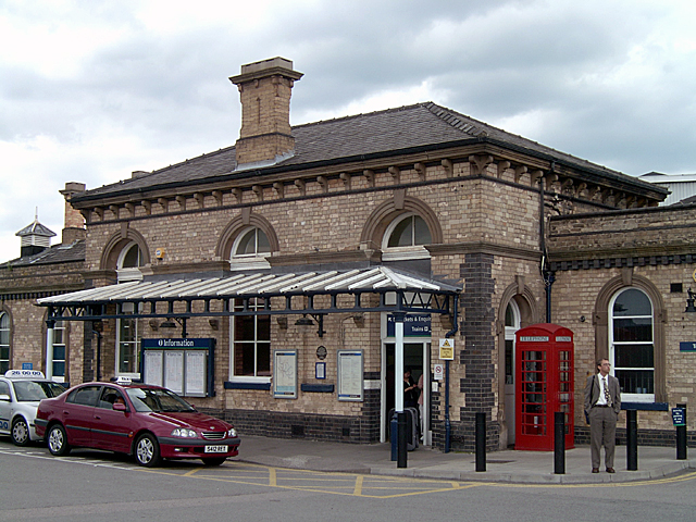 Loughborough Midland Station Frontage of the Loughborough Midland Station, on the Midland main line to Derby and Sheffield.